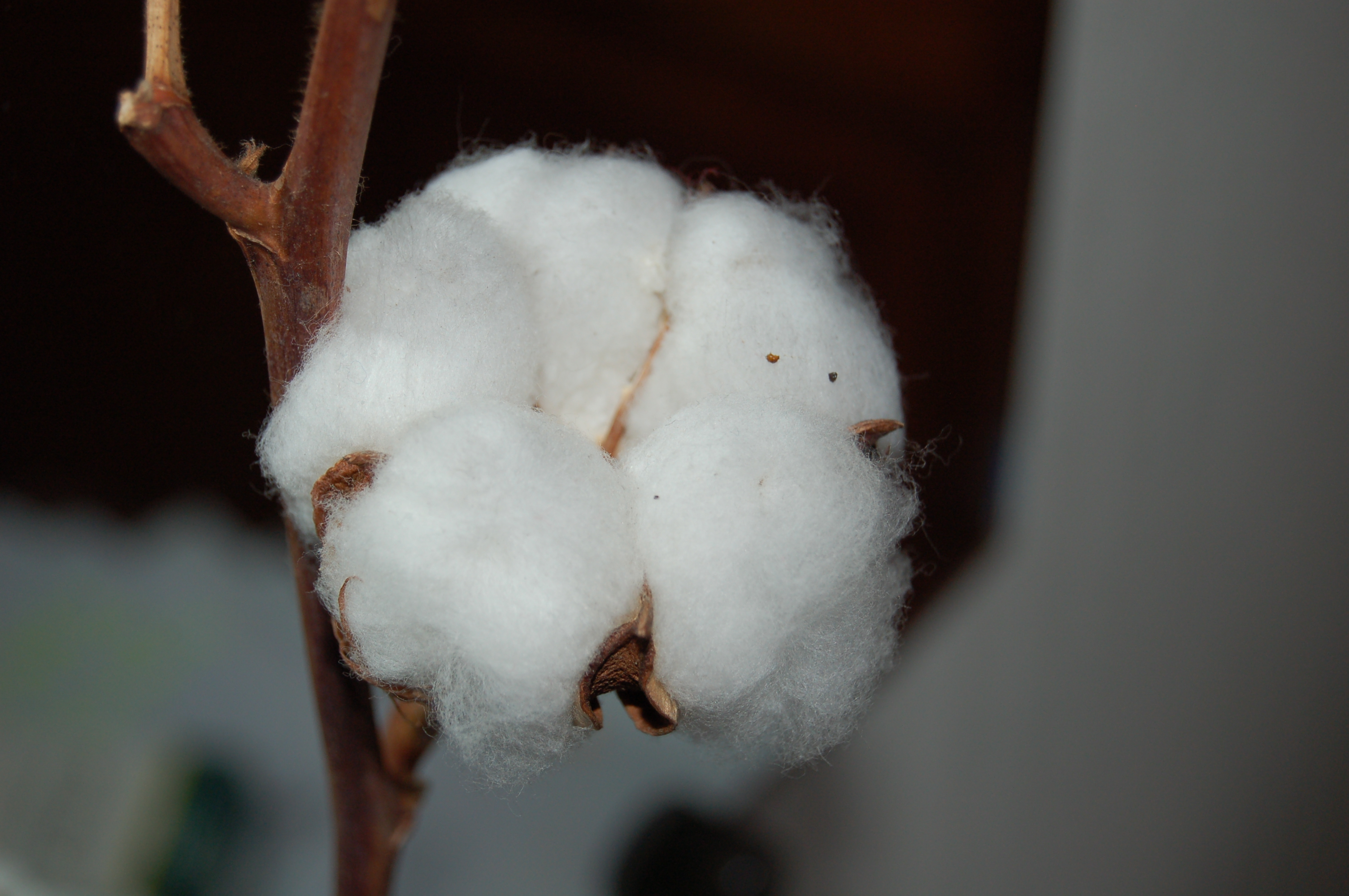 Cotton